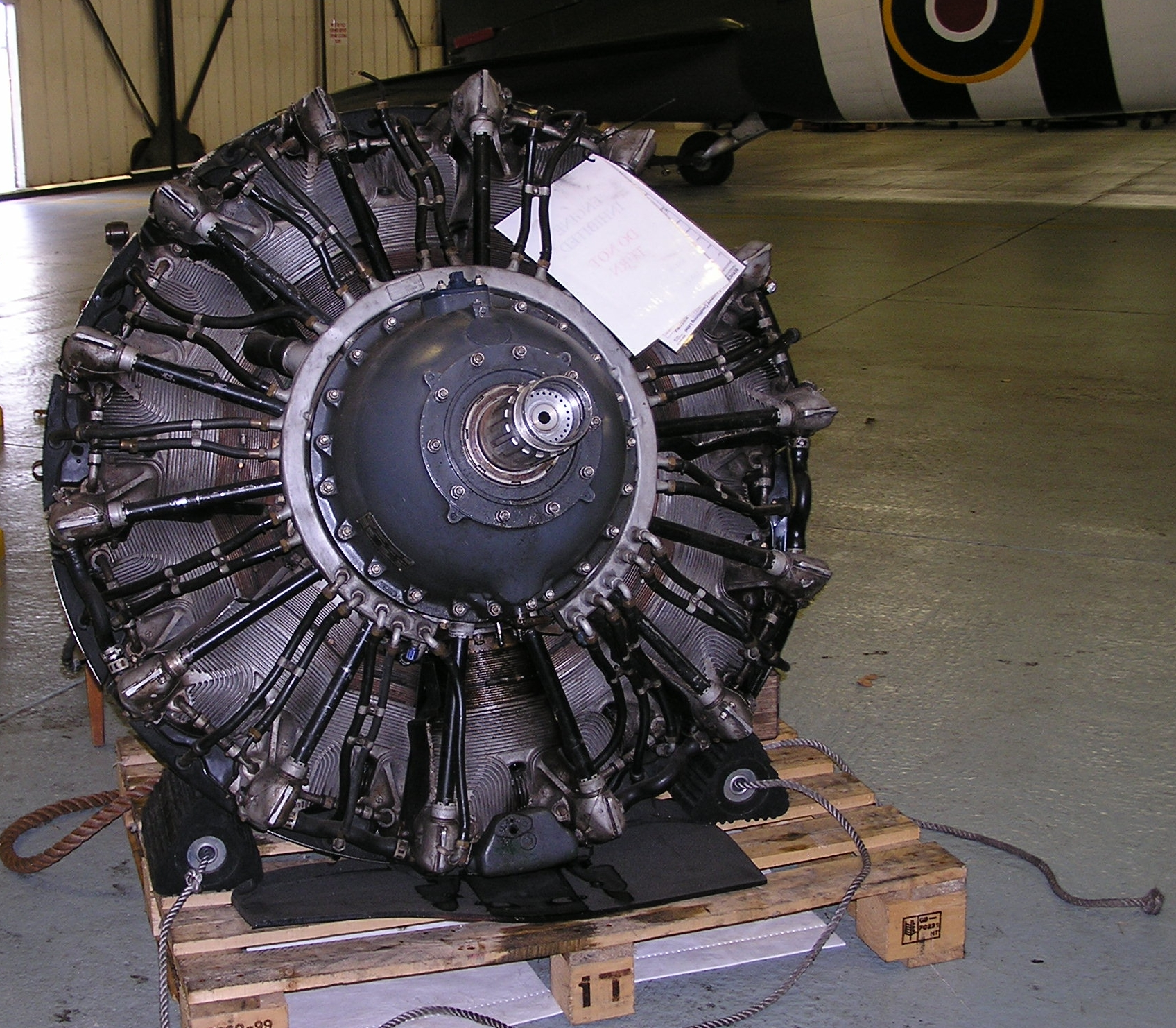 Twin Wasp removed for servicing from from the BBMF Dakota at RAF Conningsby